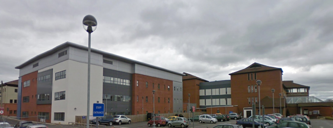 The Friarage Hospital, Northallerton (NHS South Tees Hospitals) employs over 1,400 people